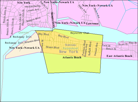 U.S. Census 2000 reference map for Atlantic Beach